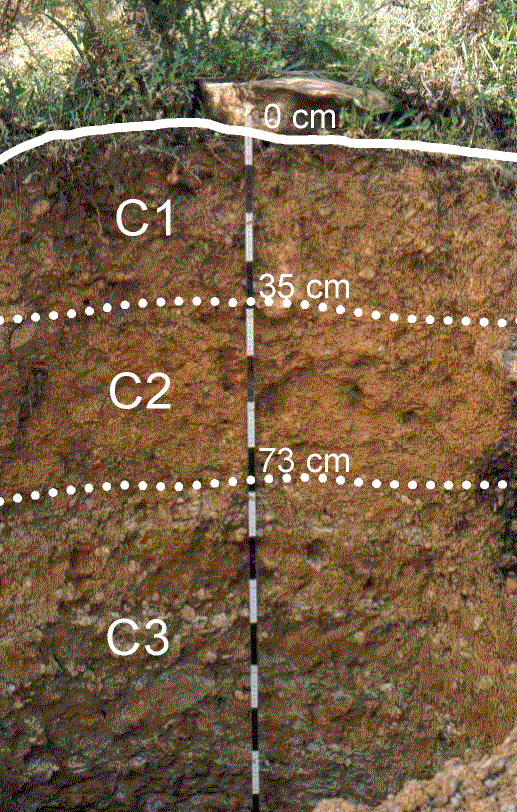 Calcaric Regosol Luqmuts Ethiopia